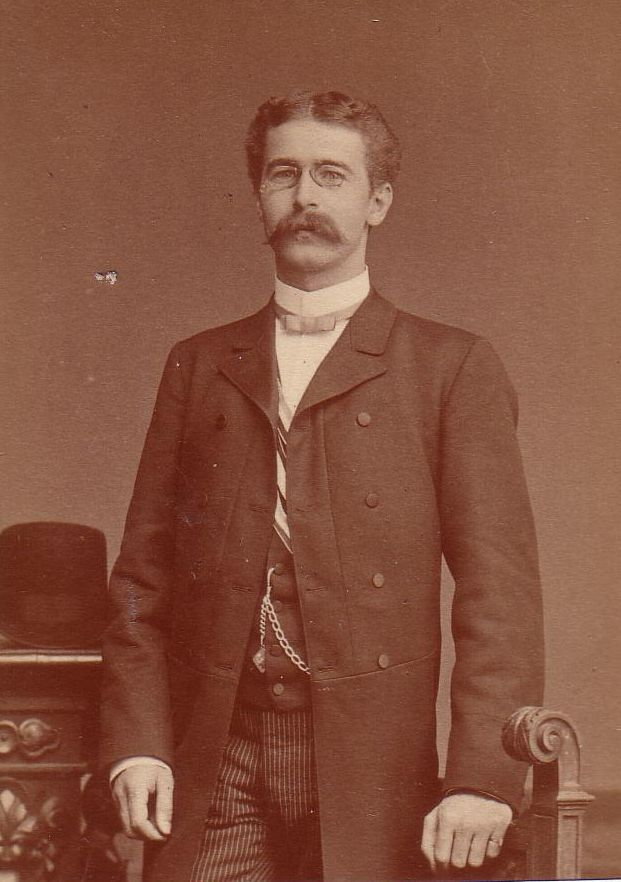 Photography of Ludwig (Jean Louis) Sponsel, dedicated to Paul Konietzko